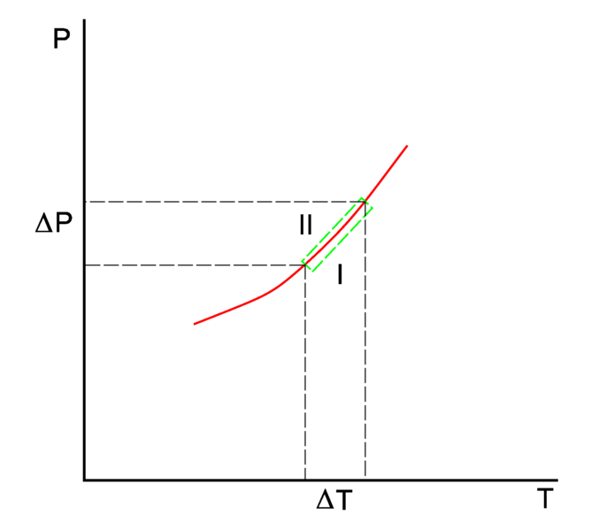 Coexistence line in PT diagram